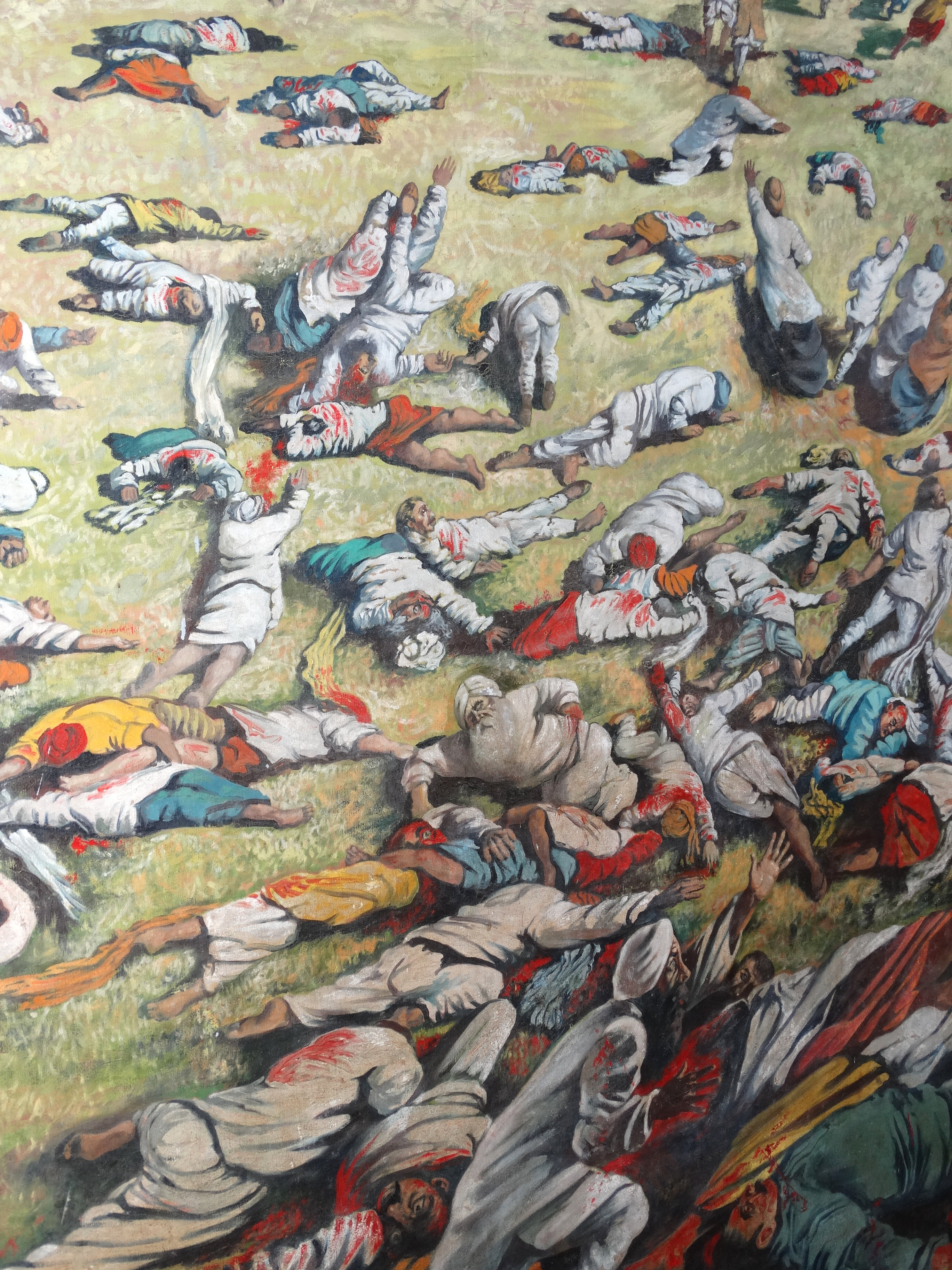 Detail of Mural Depicting 1919 Amritsar Massacre - Jallianwala Bagh - Amritsar - Punjab - India